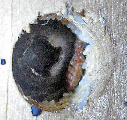 Bedbug with eggs, in a screw hole of a wooden bed.